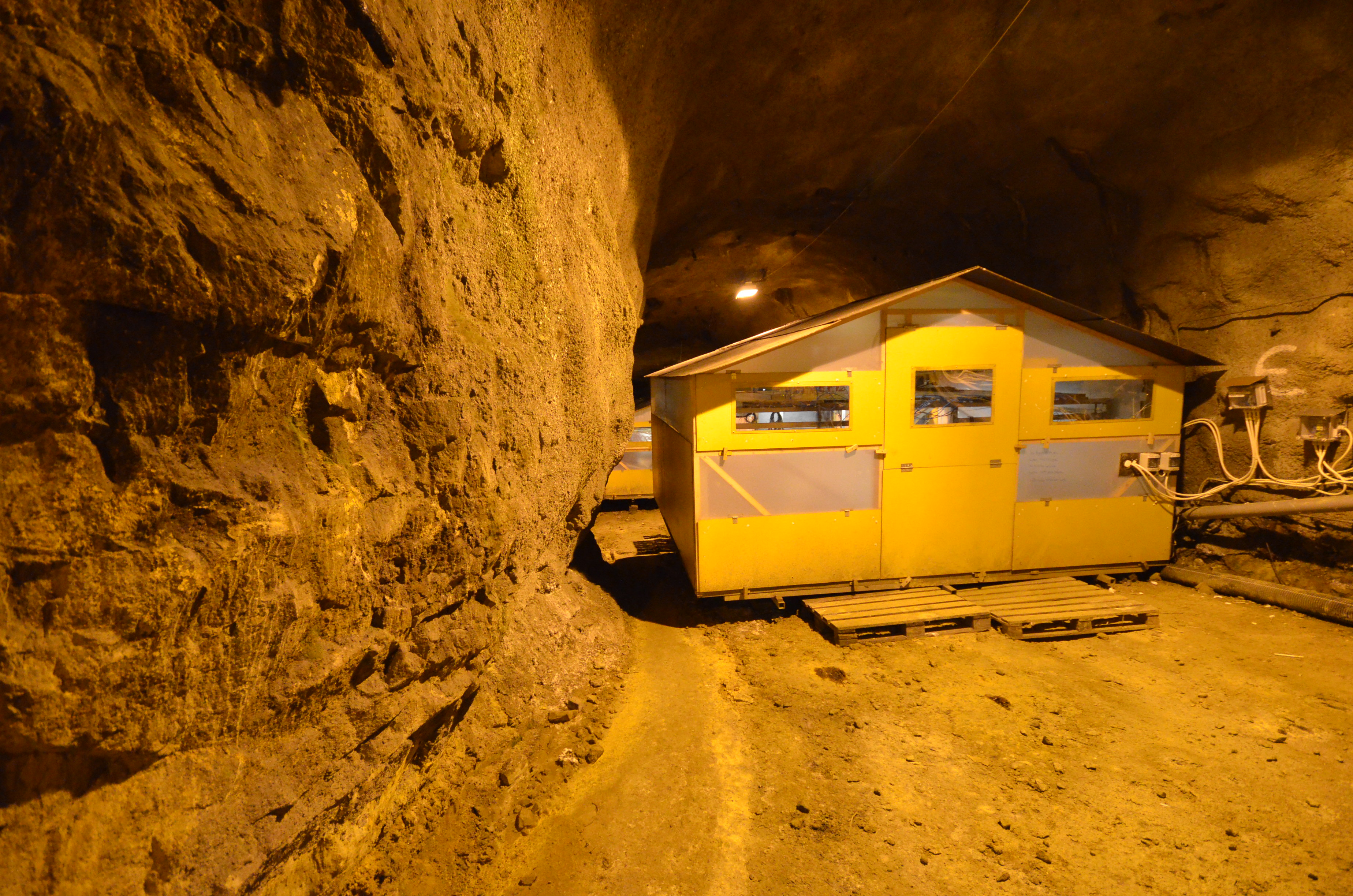 Measurement station of EMMA experiment in Pyhäsalmi mine. Station consists of the particle detectors which measure the muons of the air showers induced by the interaction between the primary cosmic particles and atmosphere.